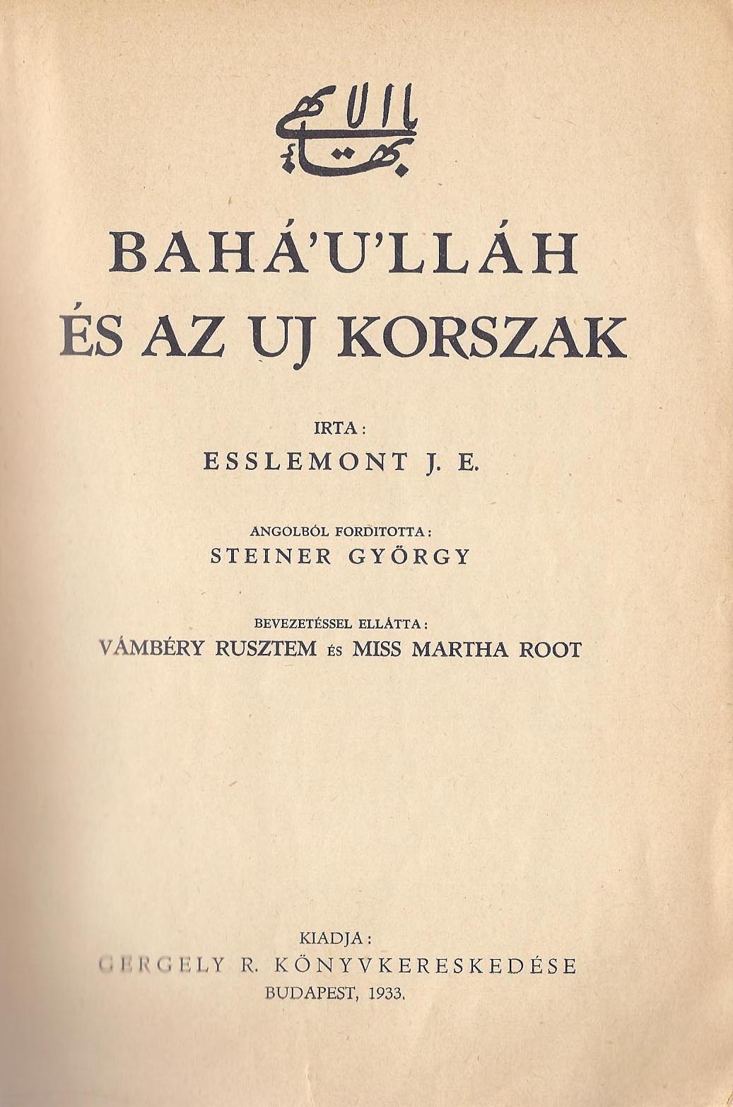 Inner front page of the first Hungarian edition Bahá’í book: Esslemont J. E.: Bahá’u’lláh and the New Era. Translated by: Steiner Gyorgy esperantist living in Gyor. Preface by: Rusztem Vambery (son of Arminius Vambery) and Miss Martha Root.